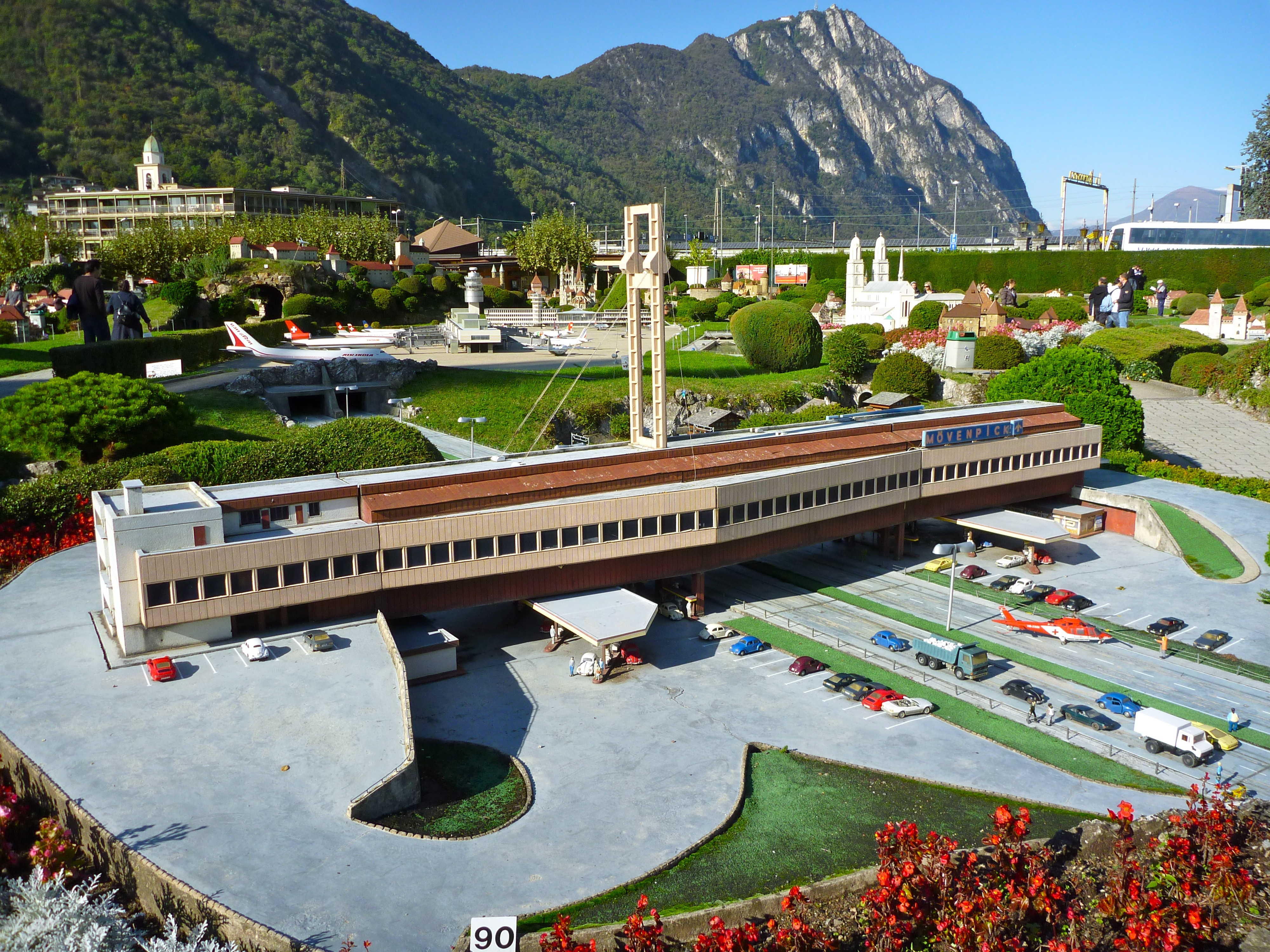 Motorway service area Würenlos, model at Swissminiatur